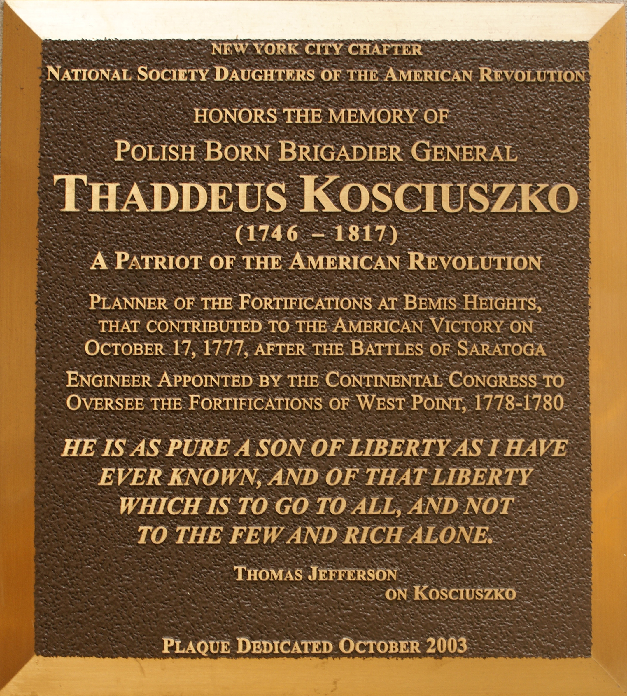 Thaddeus-Kosciuszko (1746-1817) Hero of Poland and United States of America